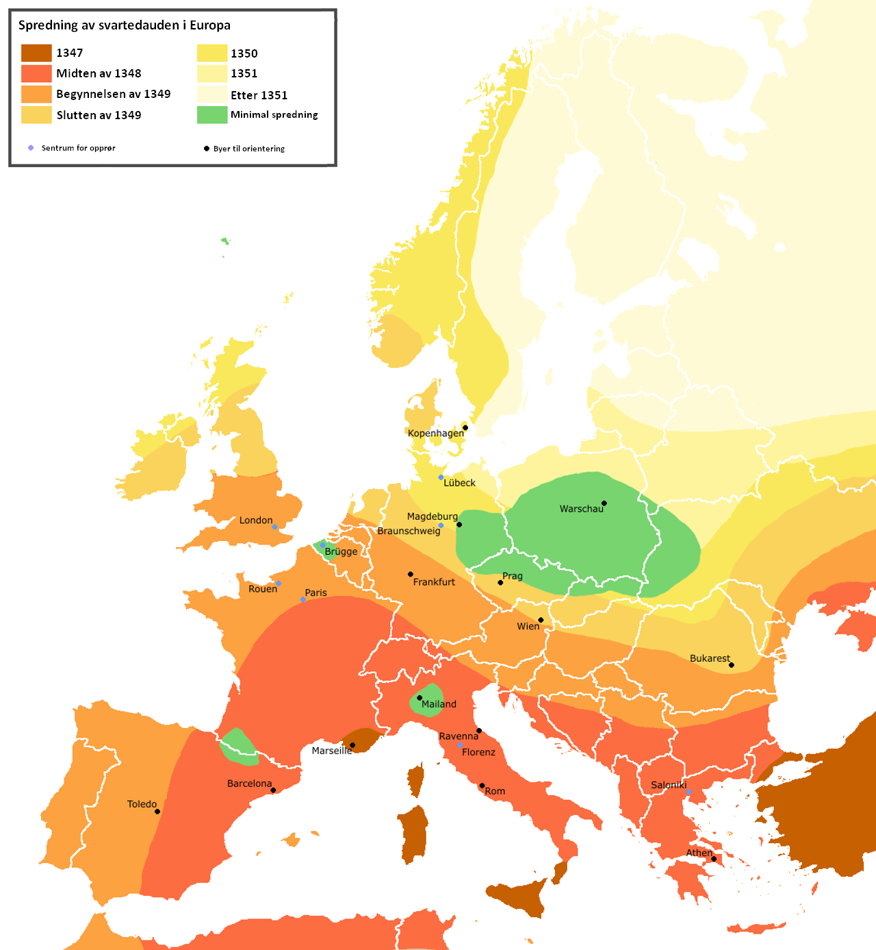 spreading of the Black Death in Europe between 1347 and 1351.